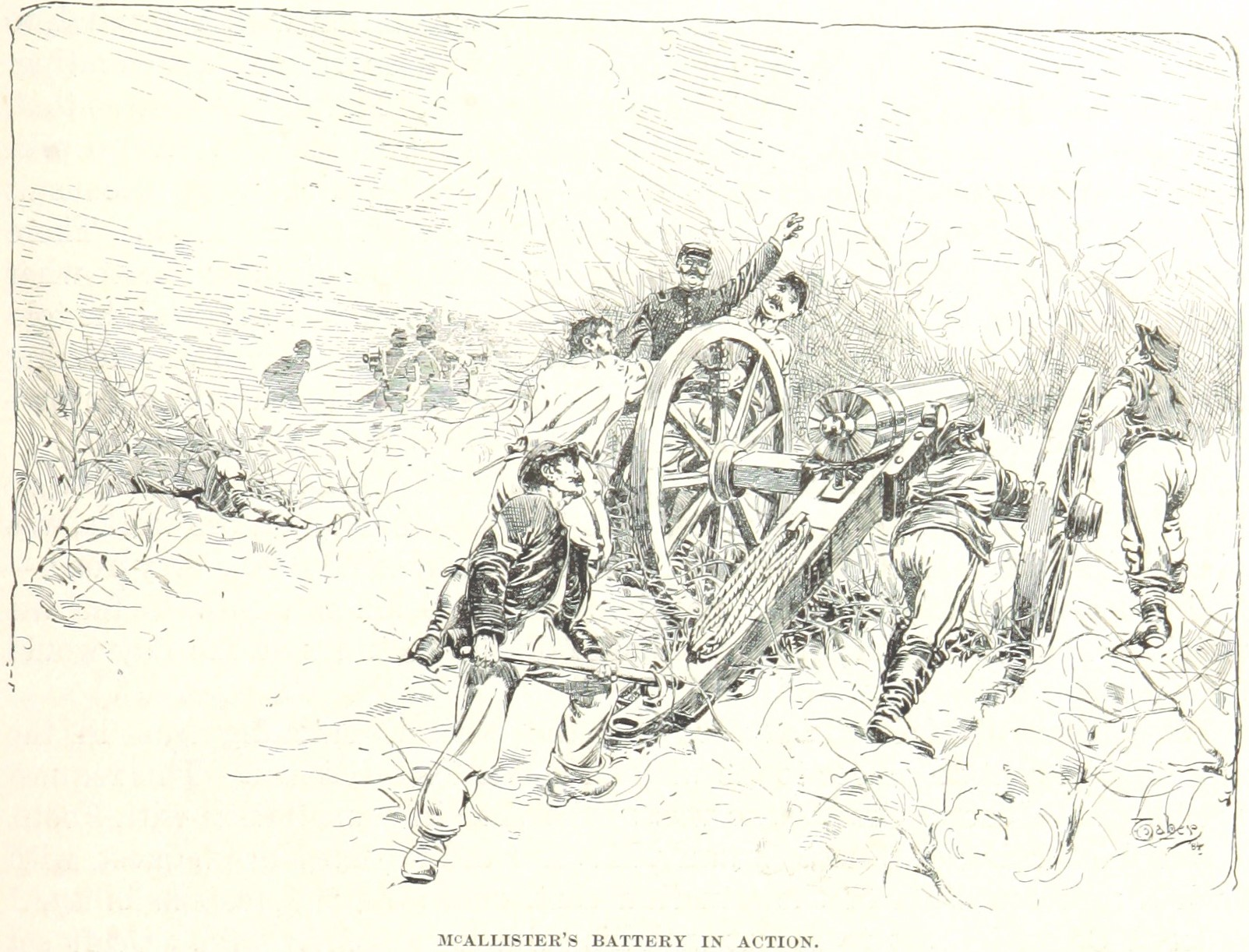 Battery "D", 1st Regiment Illinois Volunteer Light Artillery in action at the Battle of Fort Donelson